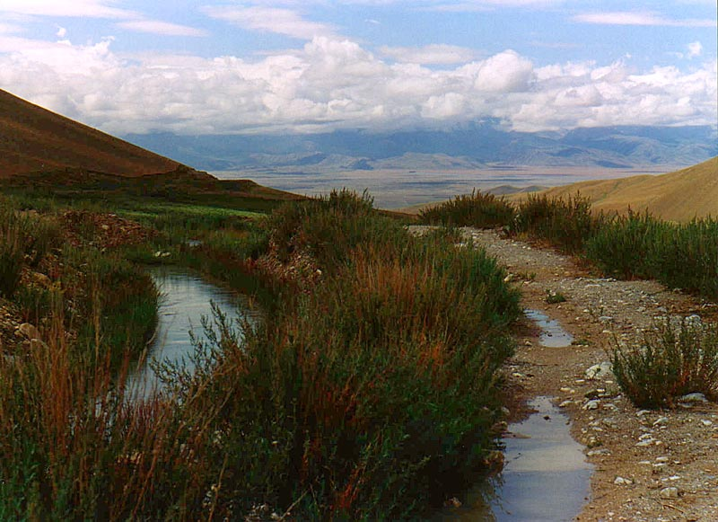 The Alay Valley (Kyrgyz: Алай өрөөнү) is a broad, dry valley running east-west across most of southern Osh Province, Kyrgyzstan